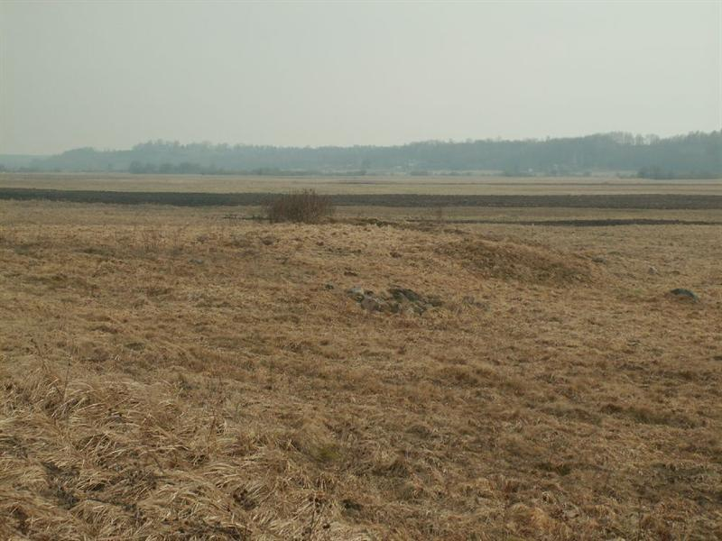 Žvainių barrow cemetery, Kretinga district, LithuaniaLietuvių: Žvainių pilkapiai, Kretingos rajonas, Lietuva